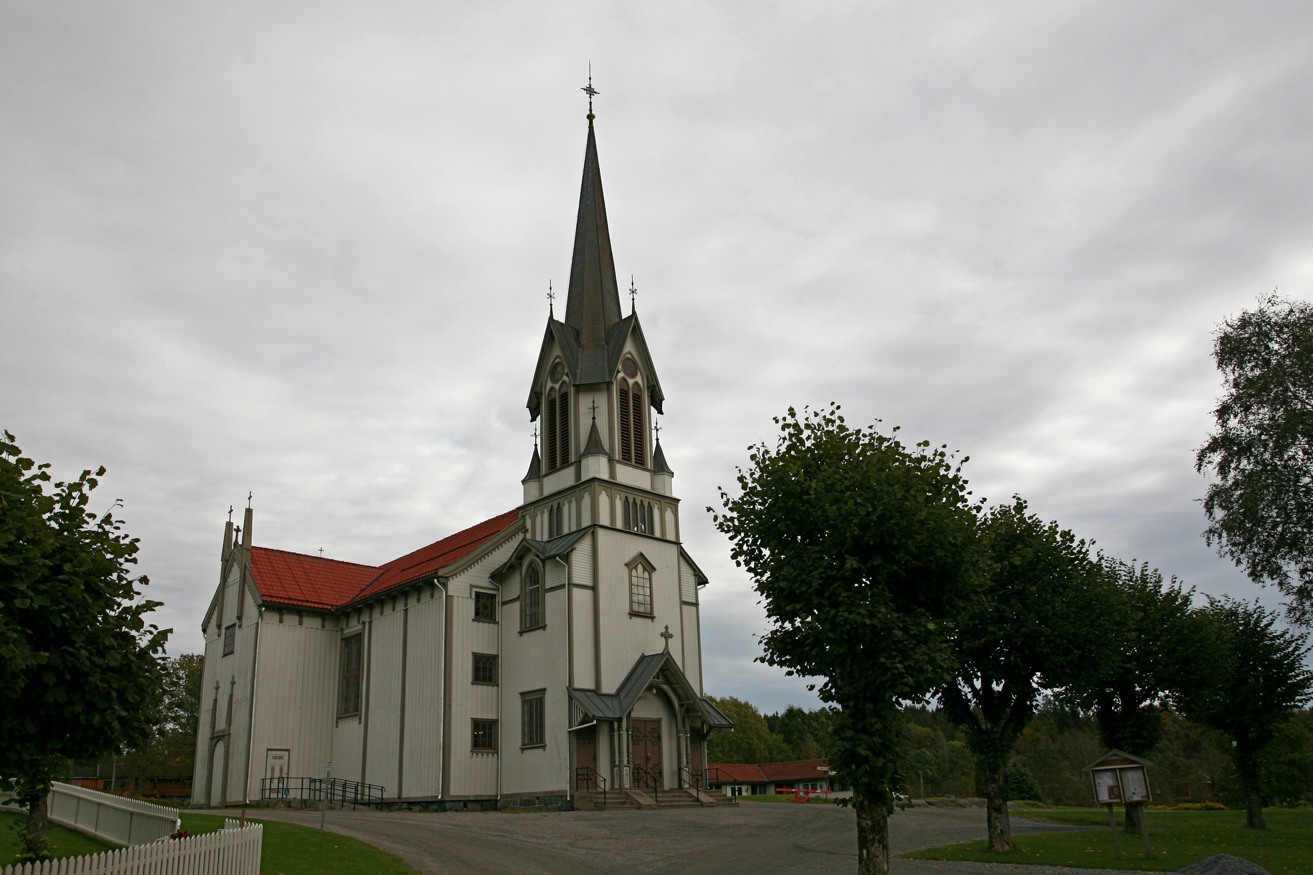 Picture of Bamble kirke (Telemark - Norway)